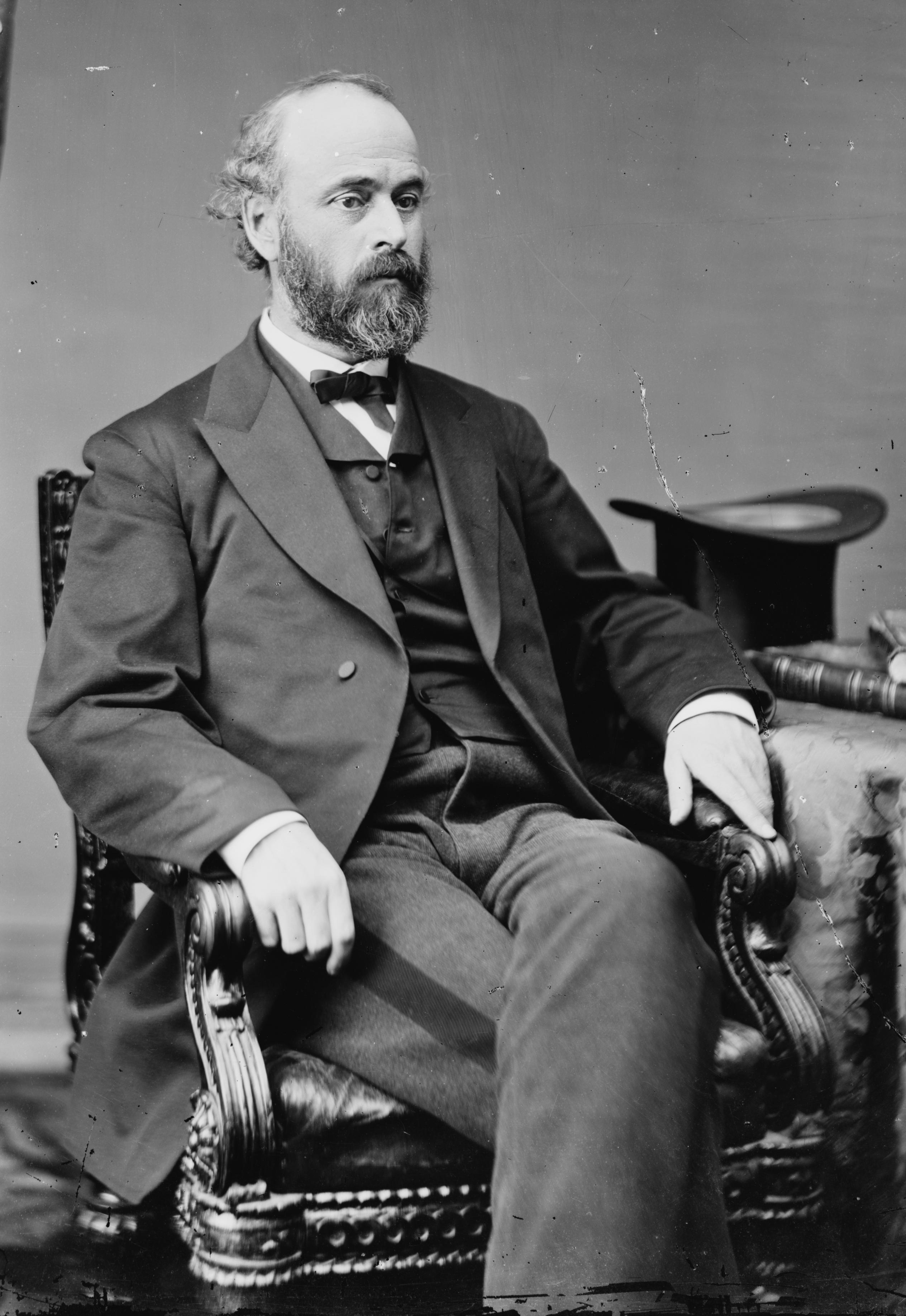 Orris S. Ferry. Library of Congress description: "Hon. Orris Sanford Ferry of Conn."